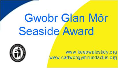 The logo of the Keep Wild Tidy Seaside Award